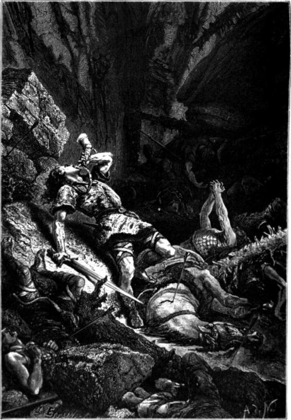 Roland at Roncesvalles